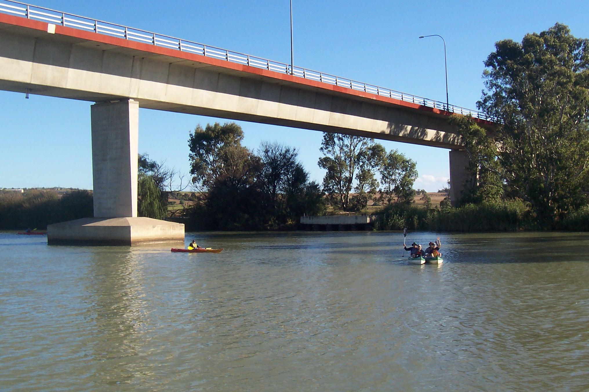 Swanport Bridge over River Murray, near Murray Bridge in South Australia.